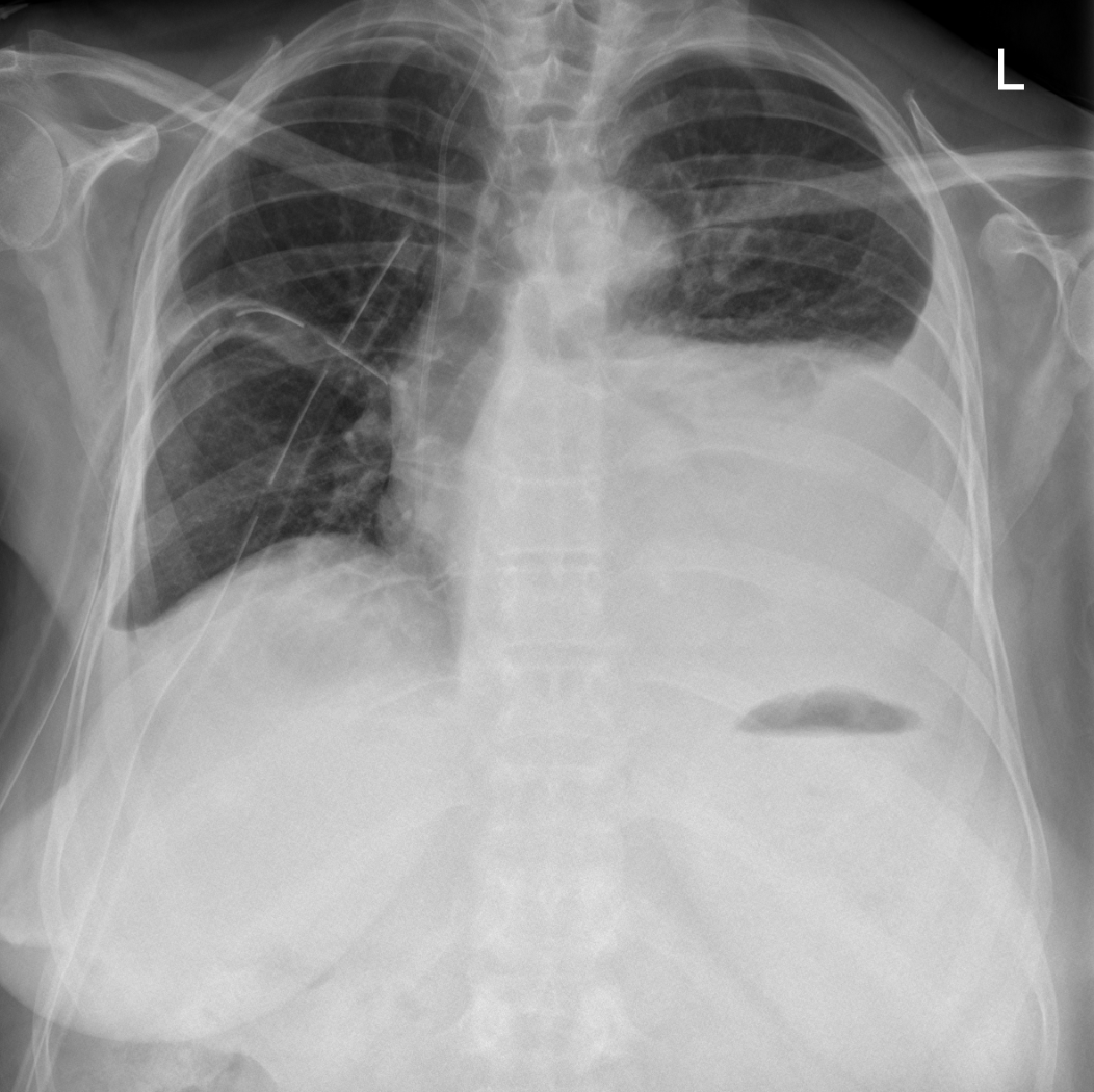 Pleural effusion in an upright position. The fluid is under the lung at the base of the thorax.